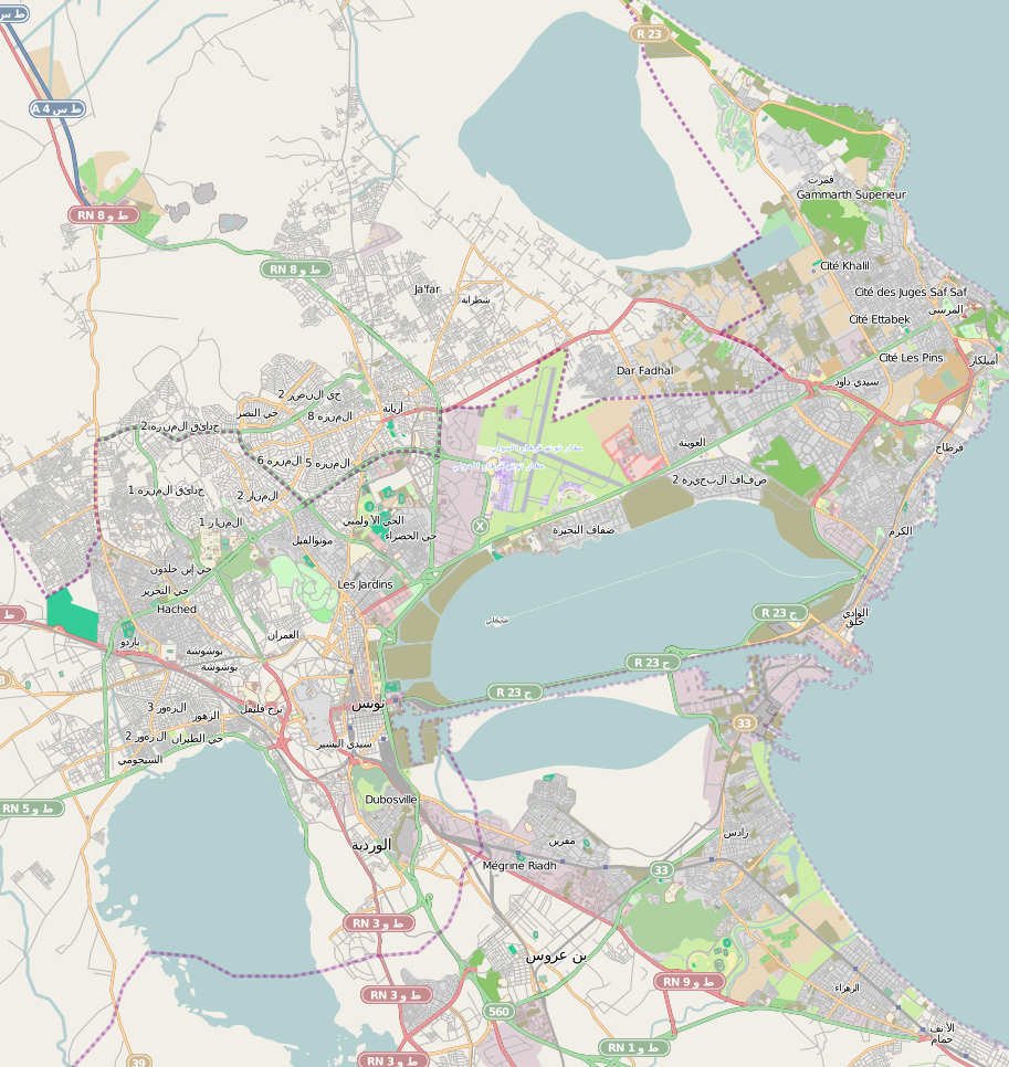 Map of Tunis Geographic limits of the map: N: 36.9414° S: 36.7273 W: 10.0927° E: 10.3454°